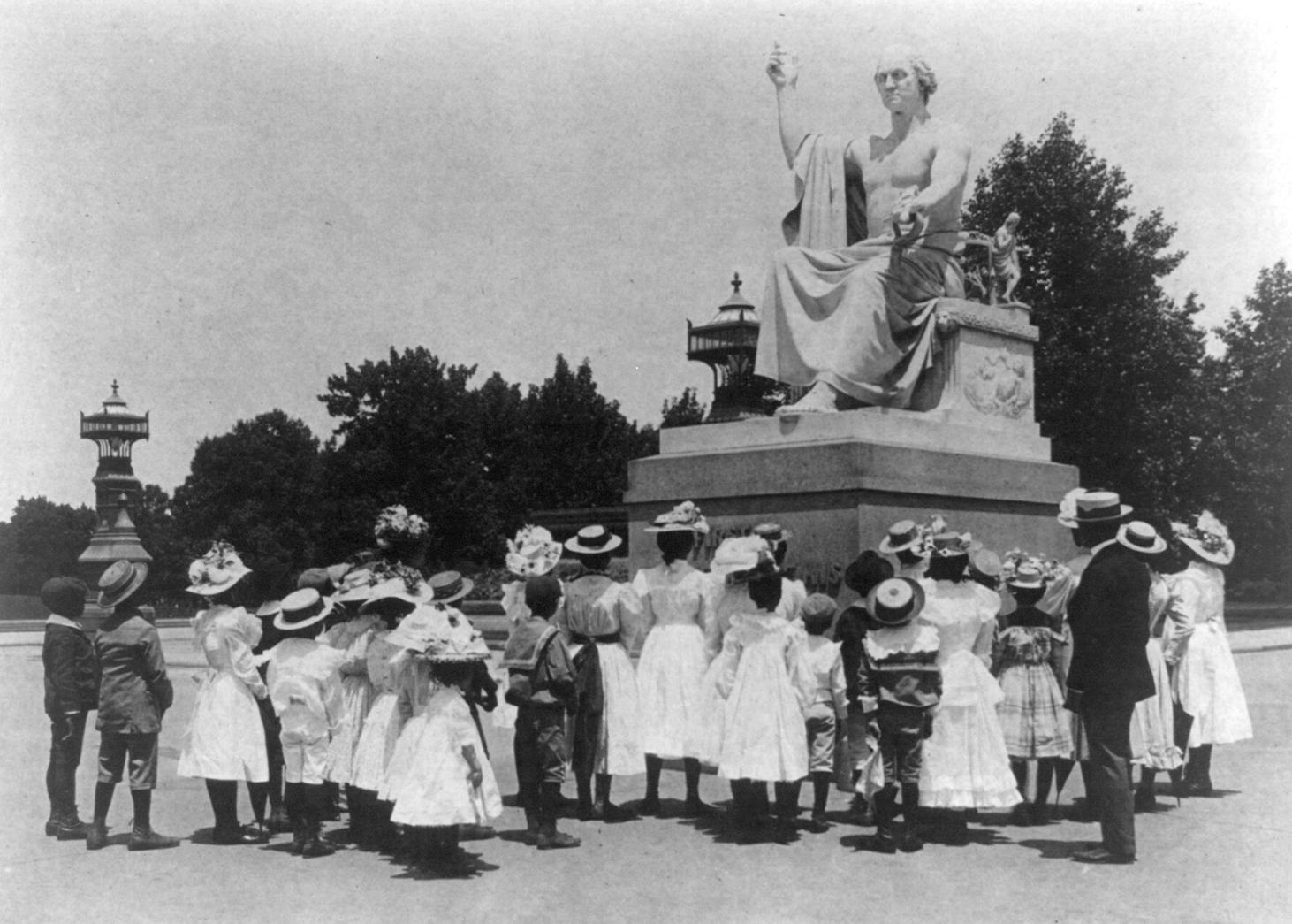 Edited image from Library of Congress digital collection. African American school children facing the Horatio Greenough statue of George Washington at the U.S. Capitol. Published 1899? by Frances Benjamin Johnston, 1864-1952, photographer. REPRODUCTION NUMBER: LC-DIG-ppmsc-04904 (digital file from original) LC-USZ62-23939 (b&w film copy neg.) No known restrictions on publication.